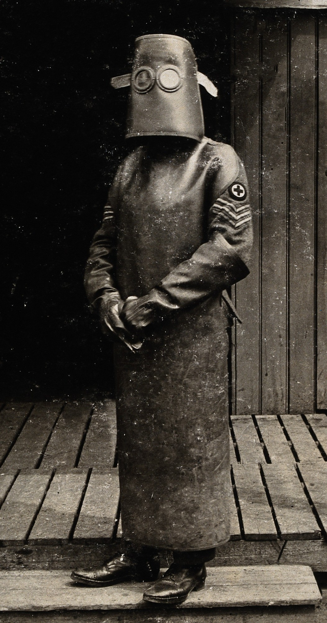 World War One, France: a radiographer wearing protective clothing and headpiece